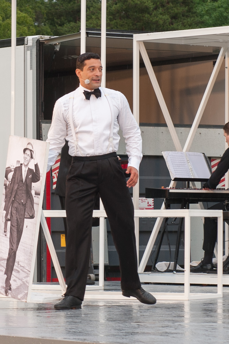 Rennie Mirro performing in the play From Sammie with Love at Nytorps Gärde, Stockholm, Sweden, June 2015